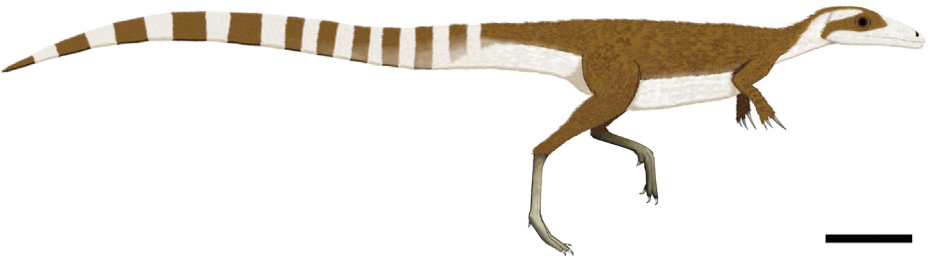 Reconstructed Color Patterns of Sinosauropteryx. Schematic based on the distribution of pigmented plumage in NIGP 127586 and NIGP 127587 highlighting the level of the countershading transition from a dark dorsum to light ventrum. Scale bar represents 100 mm.